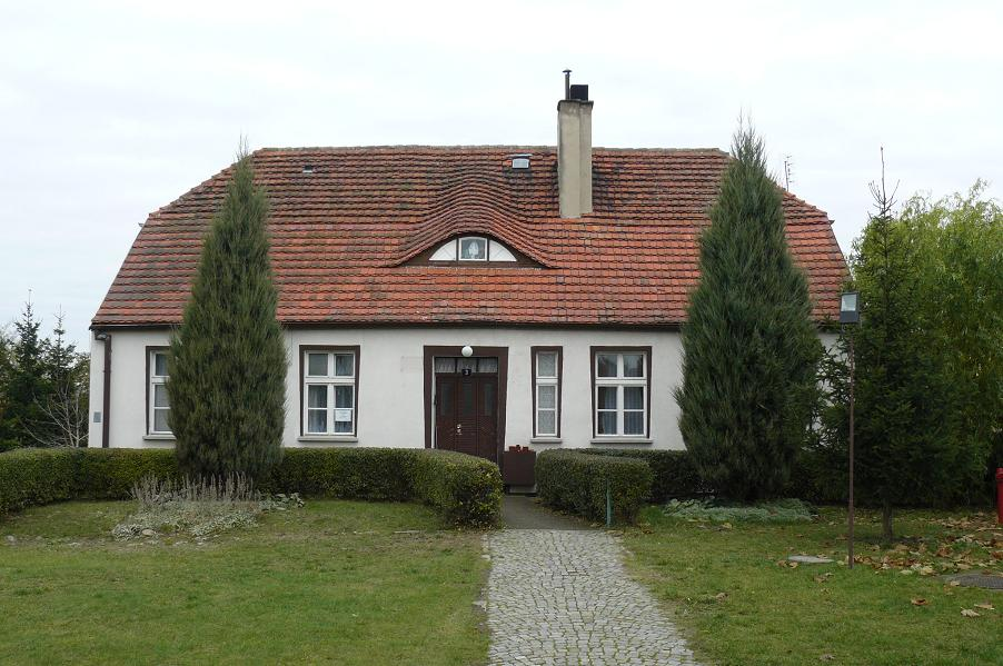 Babimost - the Organist House.